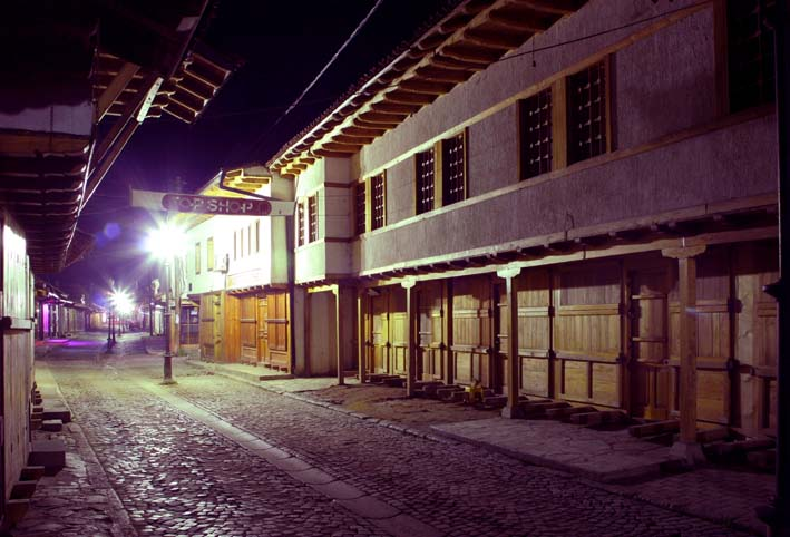 The Old Bazaar